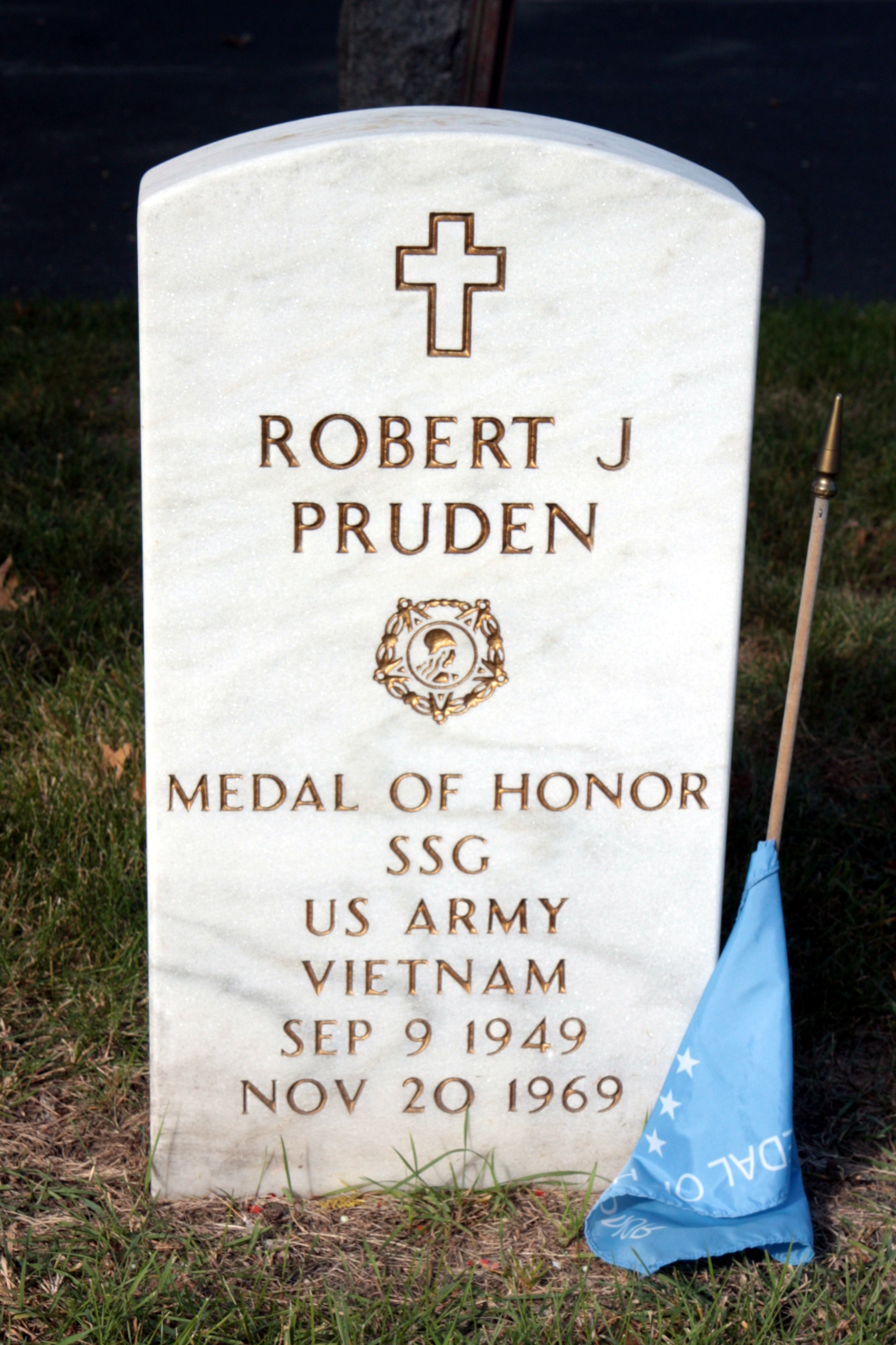 Robert J. Pruden headstone in Fort Snelling National Cemetery